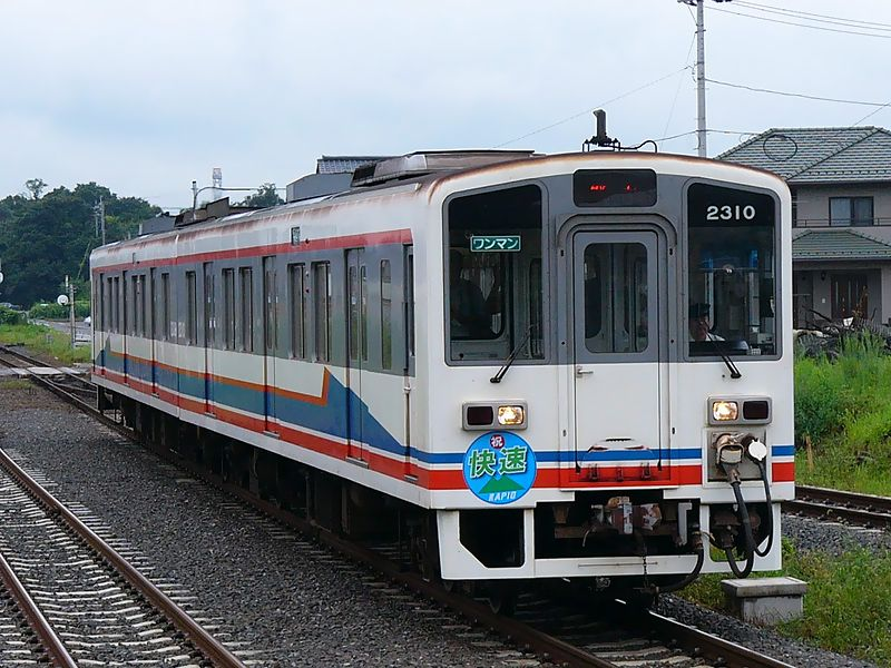 Kanto Railway 2300 series DMU cars 2309 and 2310 approaching Moriya Station in Ibaraki Prefecture, Japan